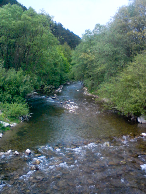 river Varínka in Slovakia, Belá, Žilina district